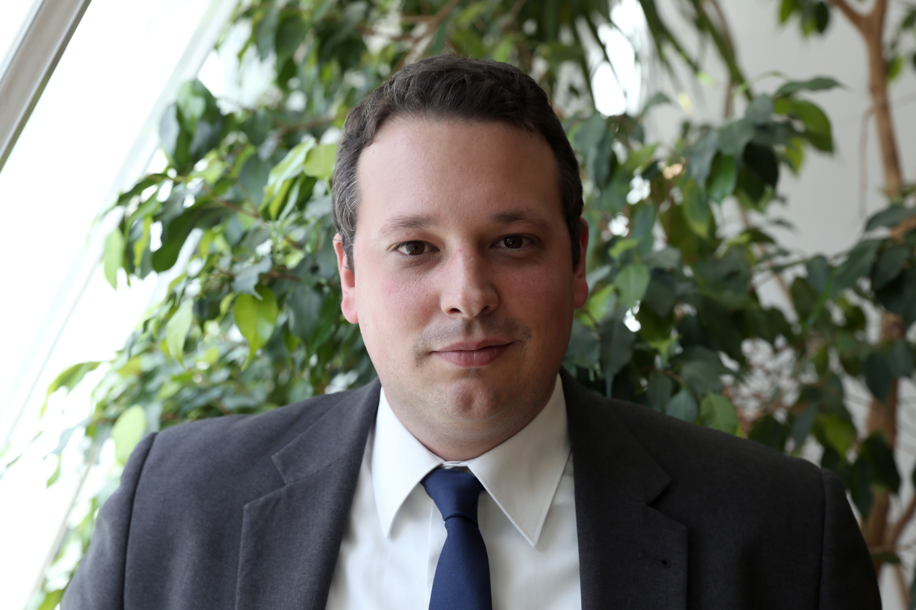 Günther Tschabuschnig at the presentation of the Open Data Portal at the Federal Chancellery of Austria in Vienna.